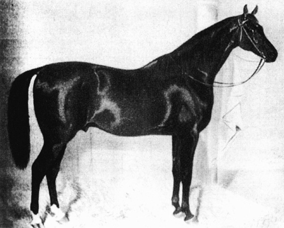 Jellachich (1844-1866) was born at Gestuet Brook in Vorpommern and stood at the Hanoverian State Stud of Celle from 1850 until his death. He was sired by Defensive, out of Beauty. Jellachich's influence on the Hanoverian breed is best known as the damsire of Fling, progenitor of the F and W lines.